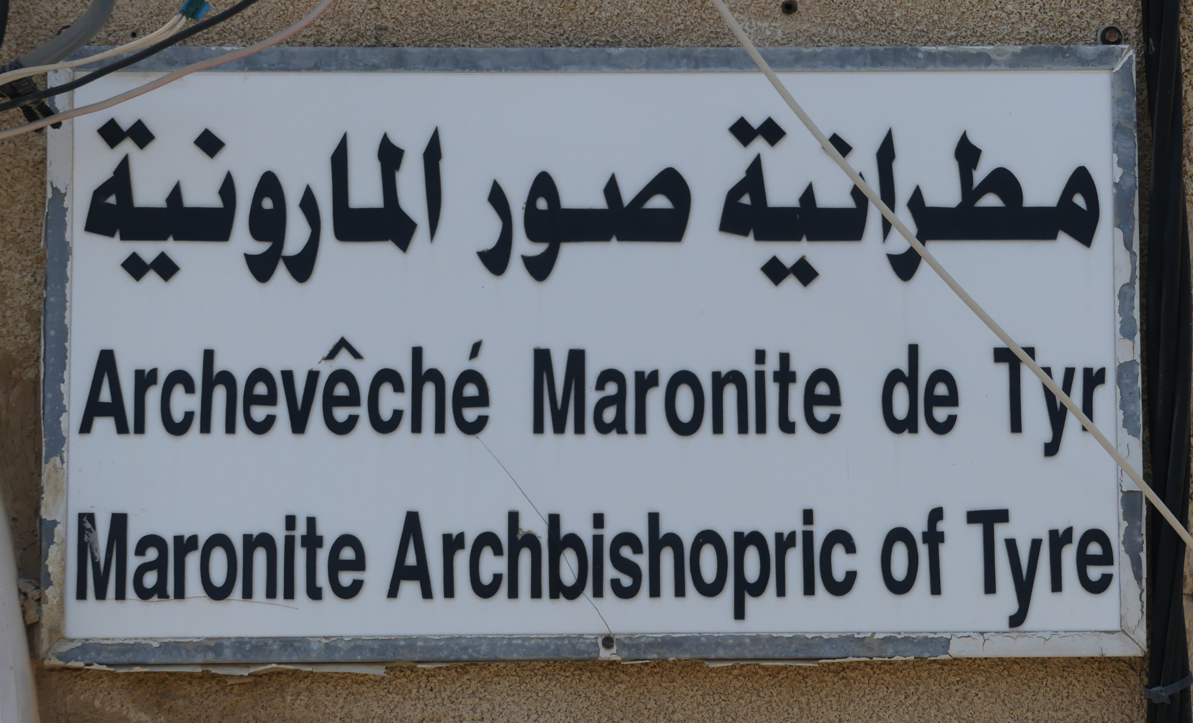 Archeveché Maronite de Tyr / Maronite Archbishopric of Tyre, Southern Lebanon